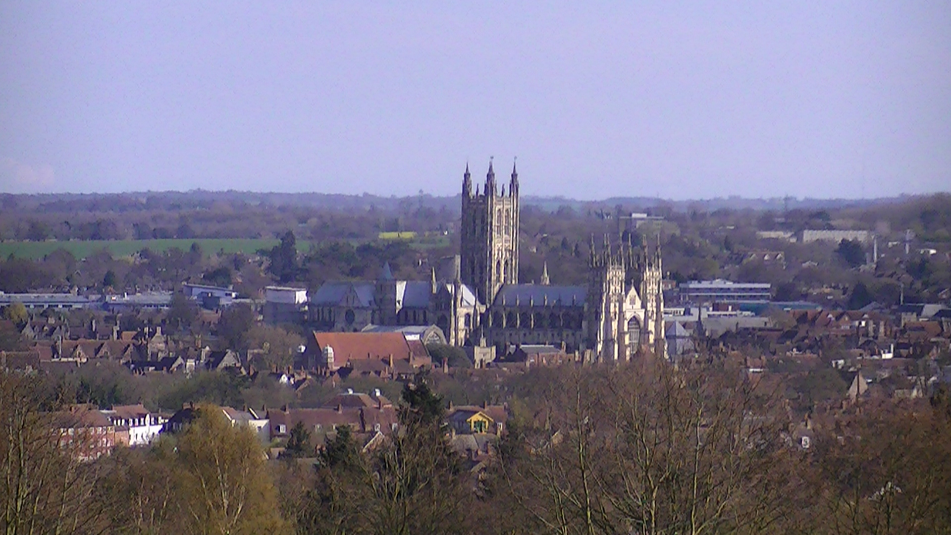 Canterbury Cathedral, as seen from the University of Kent campus